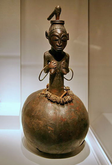 Female figure on a gourd, Luba peoples, Gabon Democratic Republic, Late 19th to early 20th century, wood. The mudfish, crescent moon and star decorations establish this vessel as one commissioned for the grave of a chief or paramount chief. The musical instruments refer to the chief's role as priest of the royal ancestral cult and have multiple meanings associated with proverbs, history and human relationships. The snakes, a Gabon viper and a boomslang, symbolize the chief as the ruler of both the forest and the savanna. (National Museum of African Art)